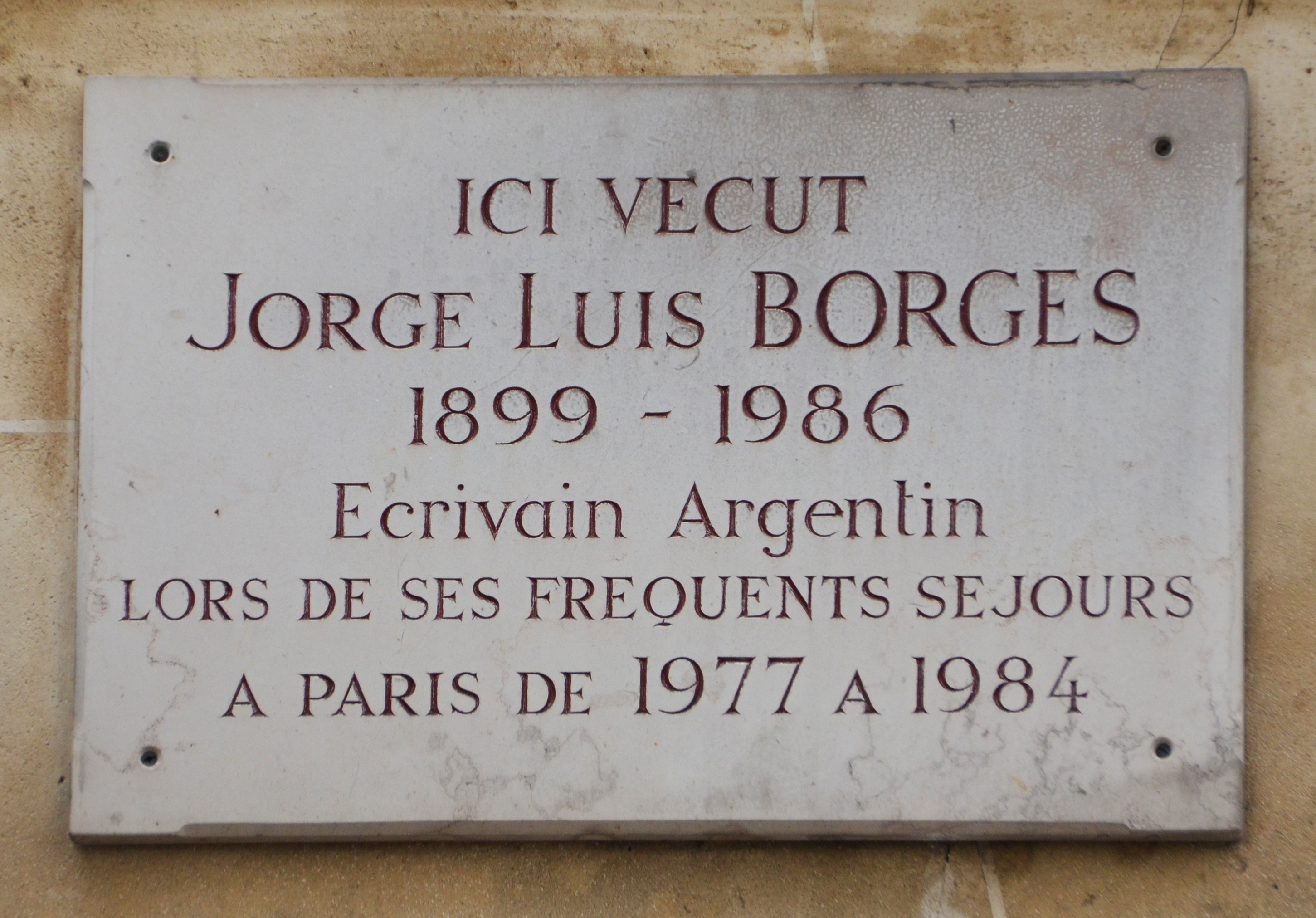 Borges is in interesting company at this hotel, because Oscar Wilde's plaque is on the other side of the door.